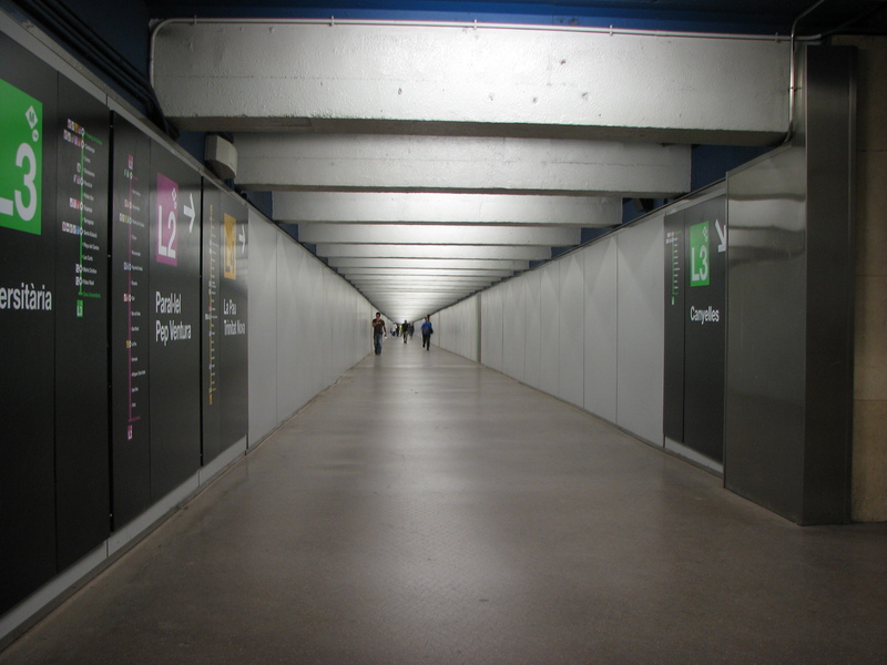 This is the tunnel linking the metro stations of lines L2 and L3 at Passeig de Gràcia metro station. Barcelona, Spain.